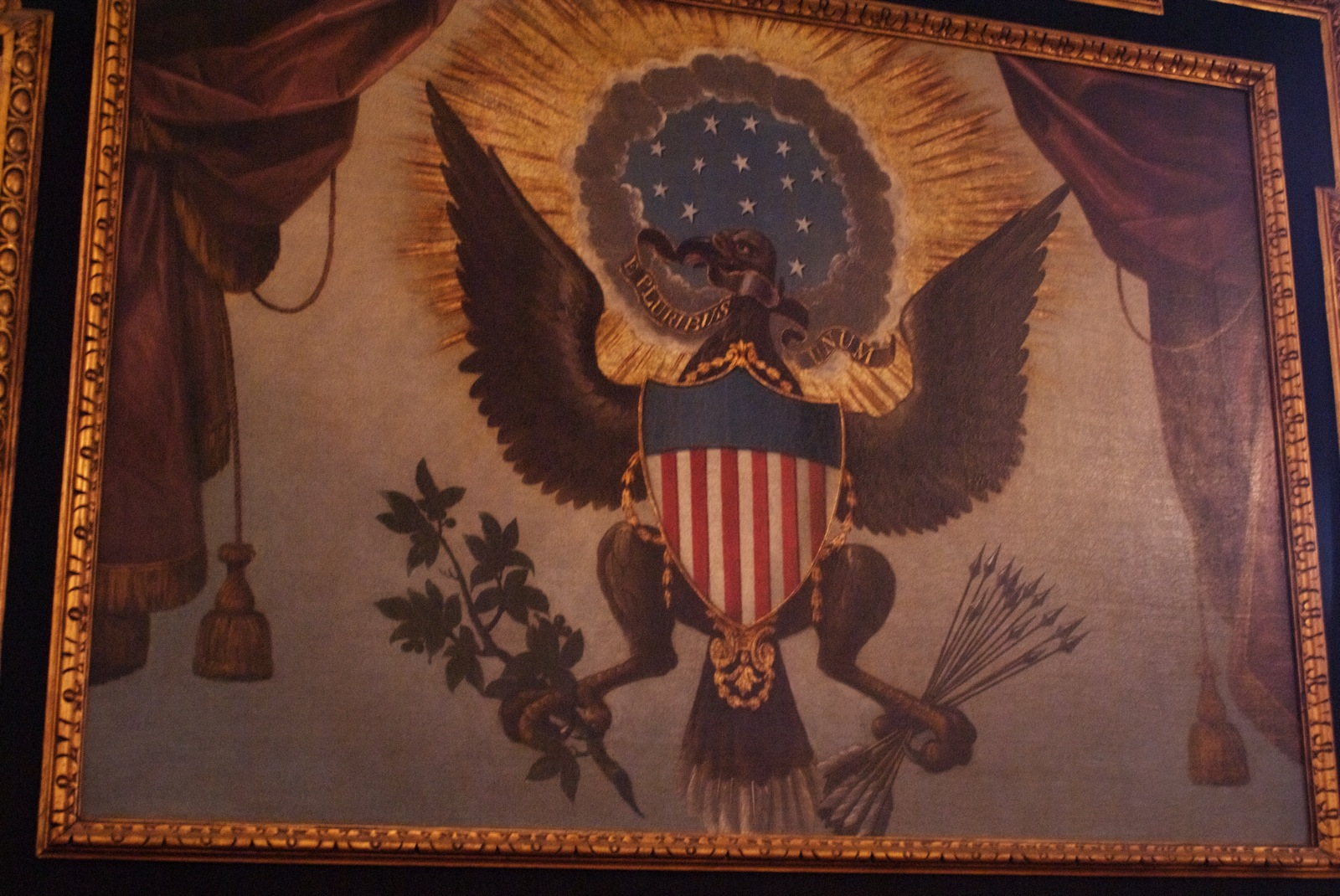 Painting of the Great Seal of the United States, hanging in St. Paul's Chapel in New York City. This is one of the earliest known versions of the Great Seal, painted according to the original description. It dates from at least 1786 (the seal itself was not defined until 1782), and the artist is unknown.